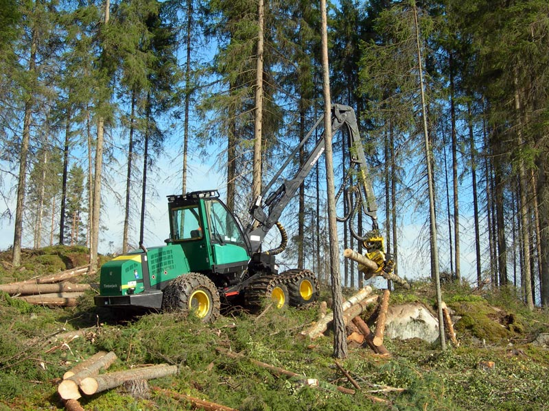 Timberjack 1070D Harverster